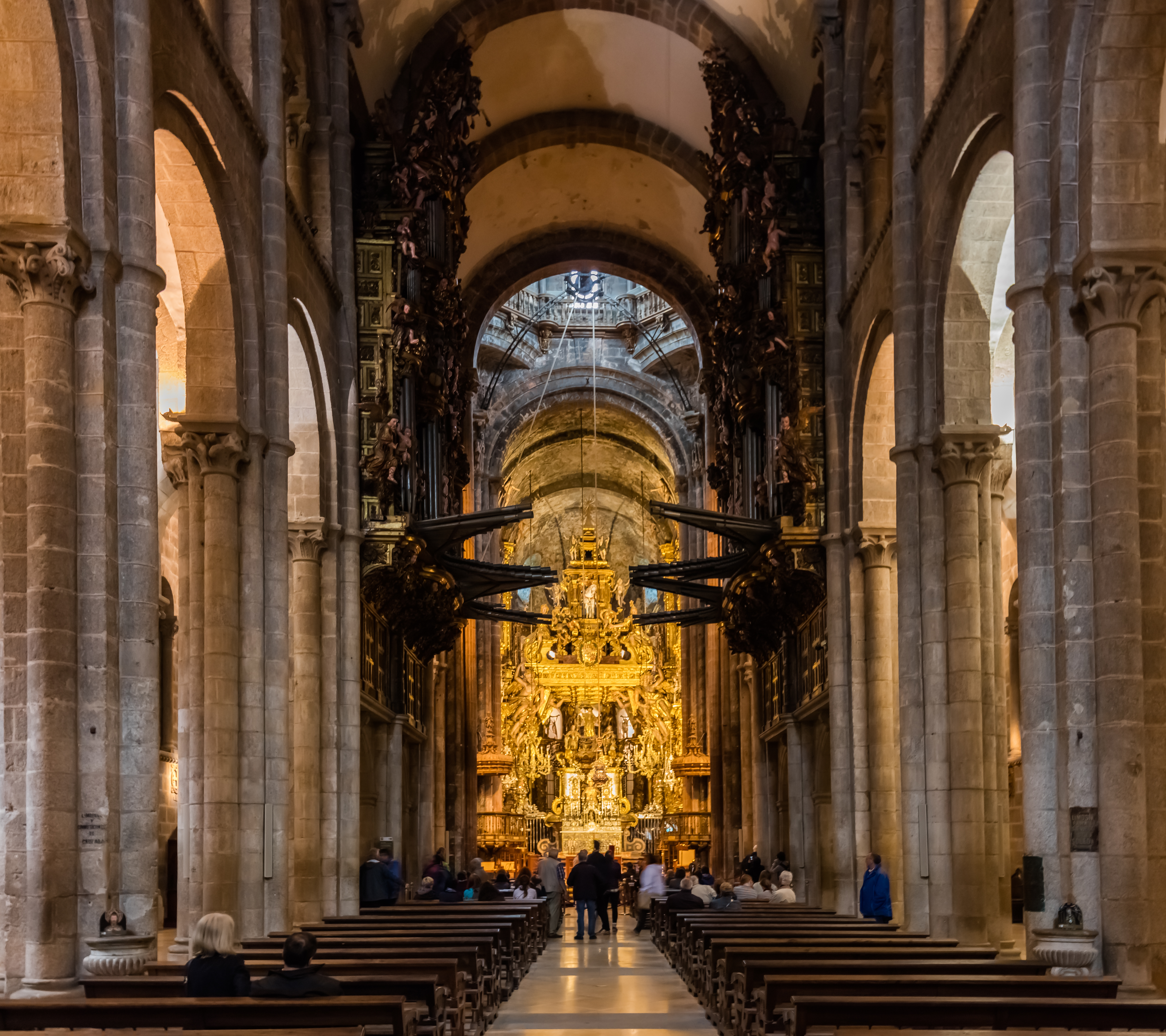 Cathedral, Santiago de Compostela, Spain